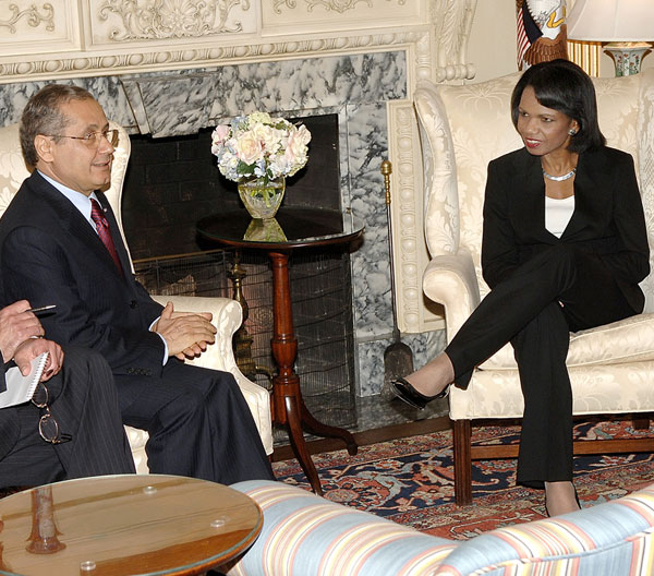 Condoleezza Rice meets with Abdelwahab Abdallah, Minister of Foreign Affairs of Tunisia, in Washington, D.C.